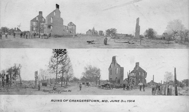 A photo 1914 Postcard showing the fire from 1914 in Creagerstown.